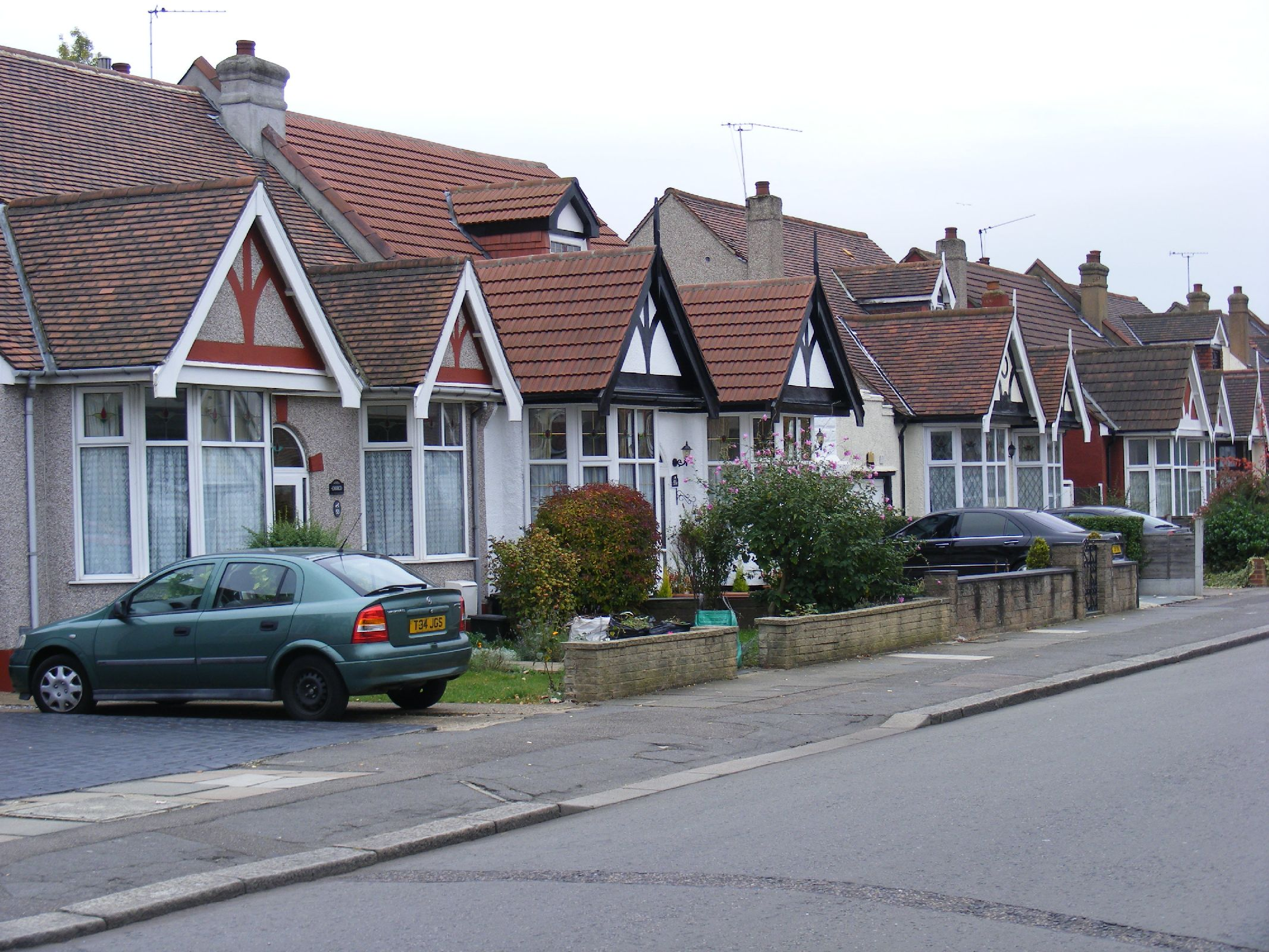 Row of bungalows in Seven Kings.